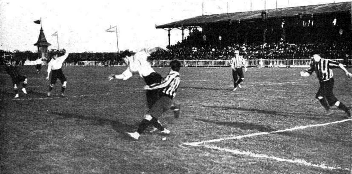 Argentine football club Alumni playing South Africa combined at Sociedad Sportiva Argentina. Second game, won by South Africa 2-0.